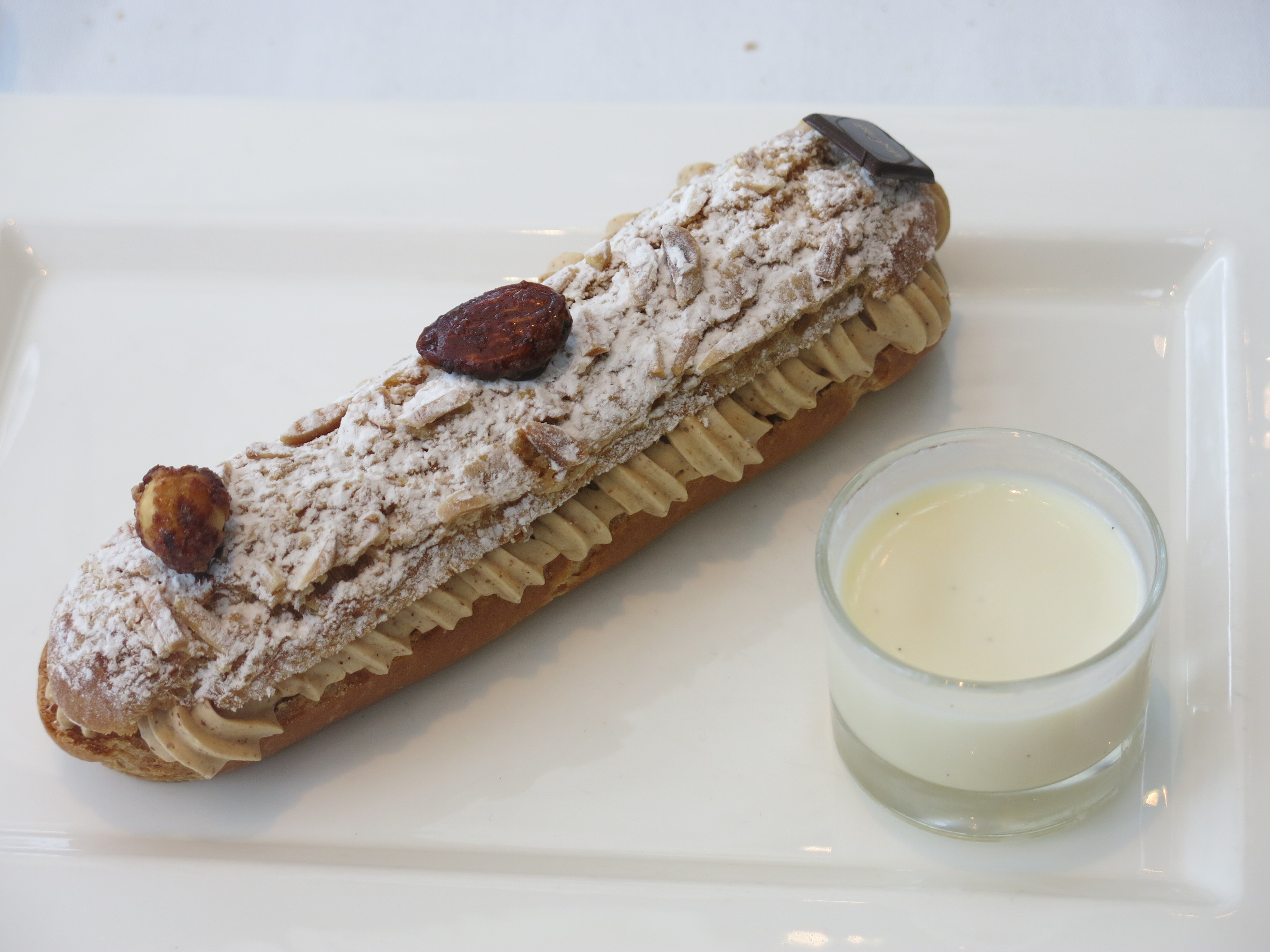 Cake Paris-Brest in the pavillon Élysée-Lenôtre : 10, avenue des Champs-Élysées (allée Marcel Proust) (Paris 8th arrond., France).